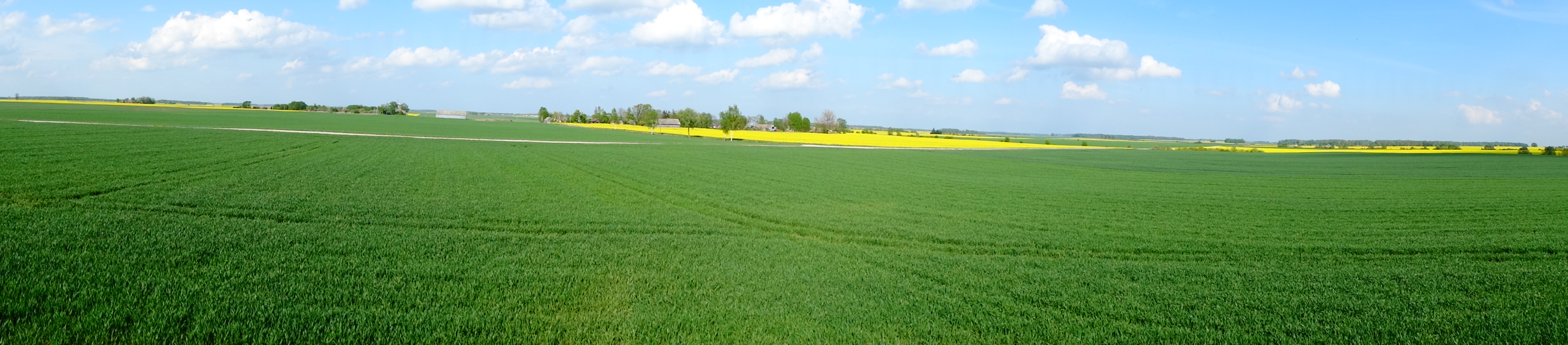 Panoramic view of Starkoniai from Kibai tumulus, Pakruojis district, Lithuania